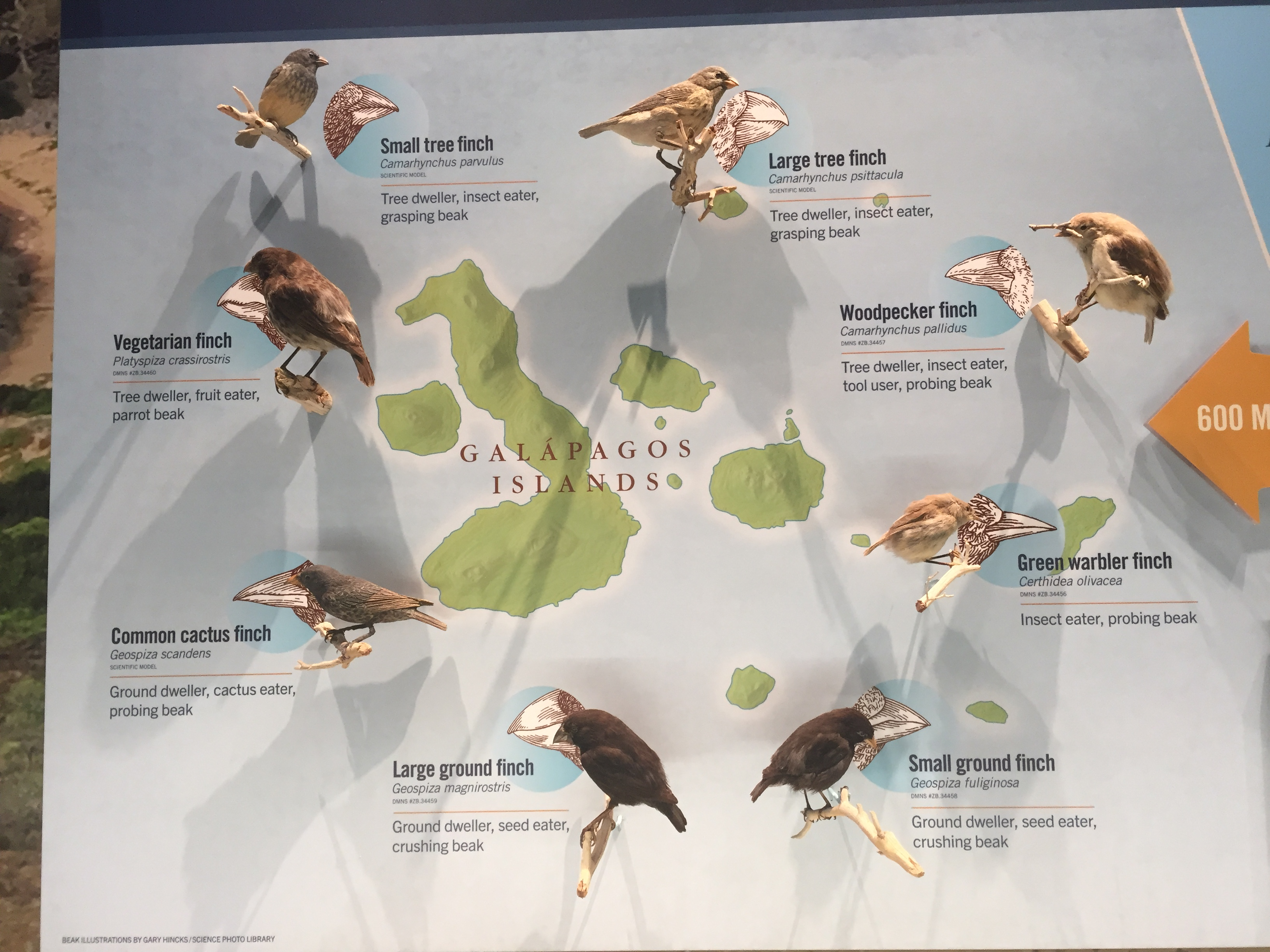 Darwin's Finches display, located in a Third-Level Wildlife Hall at the Denver Museum of Nature and Science